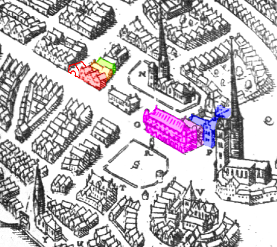 Cut with market place & Our Dear Lady's Churchyard · pink = gothic townhall (with dark aoutlines = its renaissance style supplement) · blue = archbishop's palace · red = transformed or replaced parts of the romanic townhall · red outline = dismantled arch of the romanic townhall · green = hous(es) repkacing the office of the roamic townhall · yellow = probable supplements of the romanic townhall or their descendants